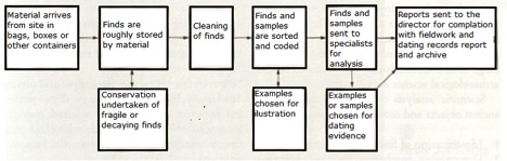 A diagram displaying post-excavation analysis steps derived from Grant, Jim, Sam Gorin, and Neil Fleming 2002 The Archaeology Coursebook: An Introduction to Study Skills, Topics and Methods. Psychology Press.